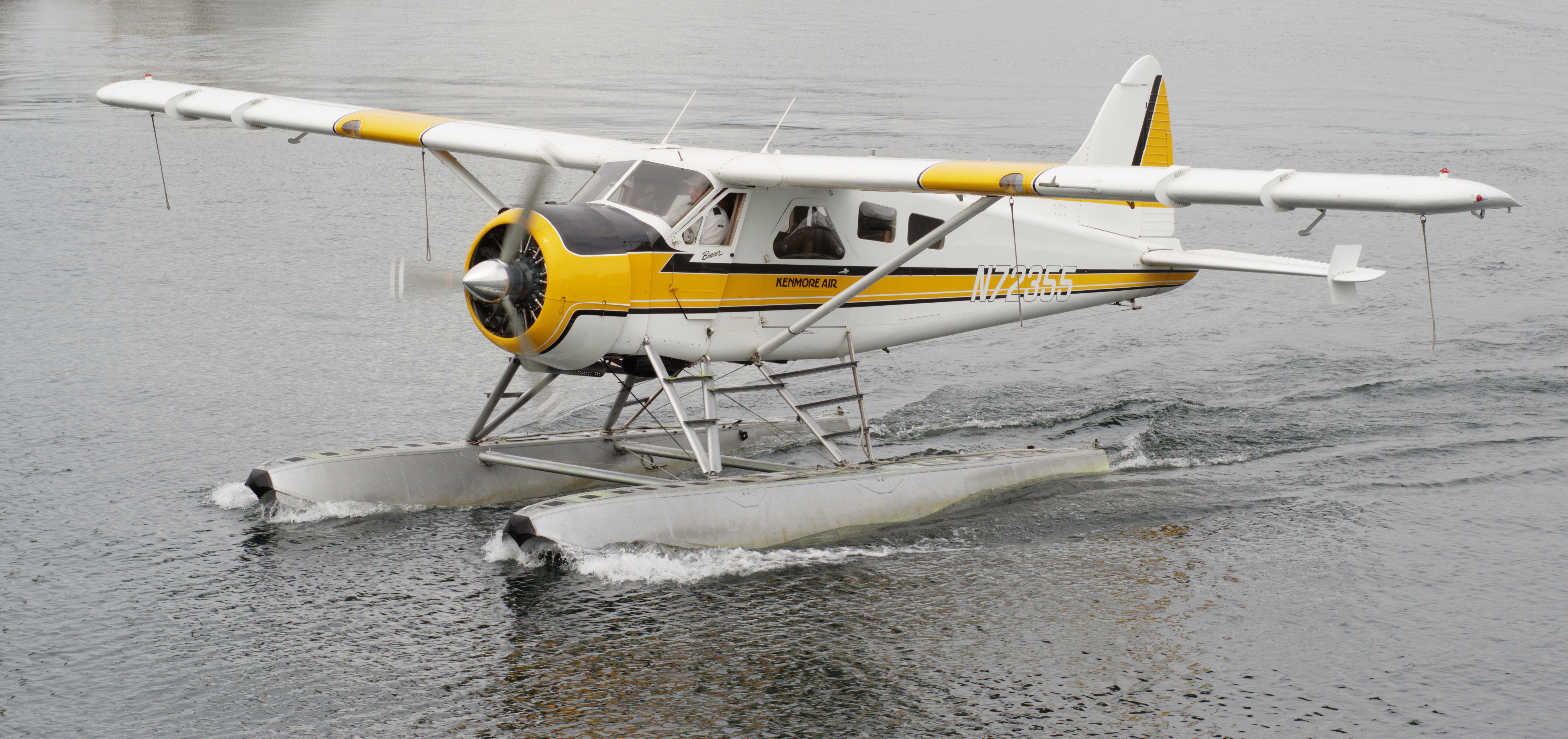 A de Havilland Canada DHC-2 Beaver with tail number N72355 operated by Kenmore. Spotted on Lake Union. This photo is a retouched crop of File:De Havilland Canada DHC-2 Beaver N9766Z Kenmore 2.JPG.